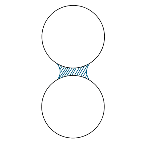 Scheme of a capillary bridge between two spheres